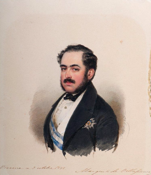 Portrait of Pedro de Alcántara Álvarez de Toledo y Palafox, 13th Marquis of Villafranca and 17th Duke of Medina Sidonia.